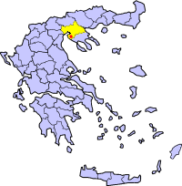 Epanomi (Thessaloniki Prefecture) town locator map in Greece.